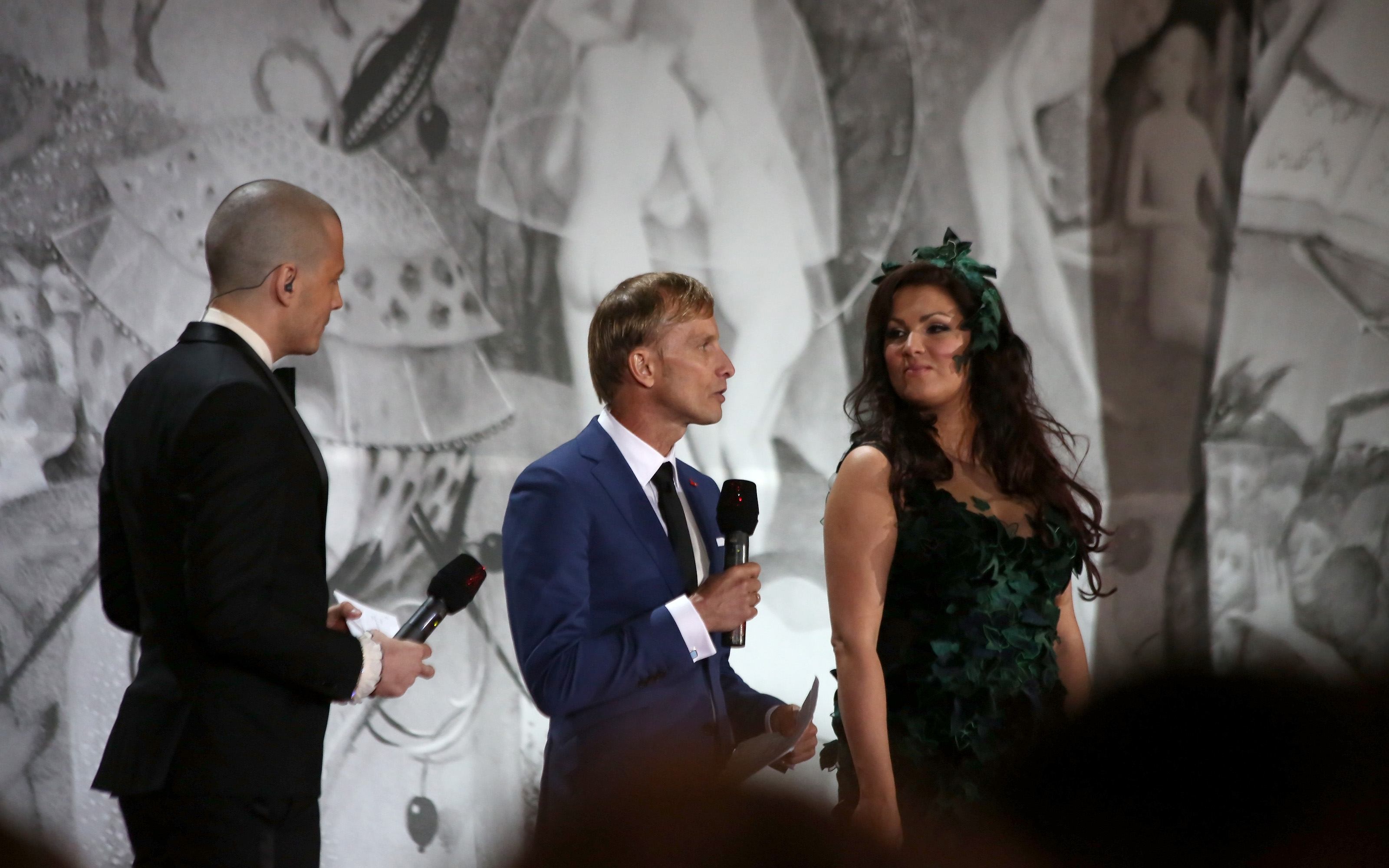 l.t.r.: Manuel Rubey, Mark R. Dybul and Anna Netrebko at the opening show of Life Ball 2014 at the city hall of Vienna, Vienna, Austria.